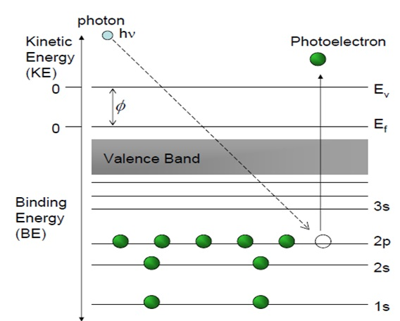 Energy levels diagram